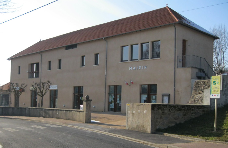 Picture of Sénaillac-Latronquière town hall (Lot - France)